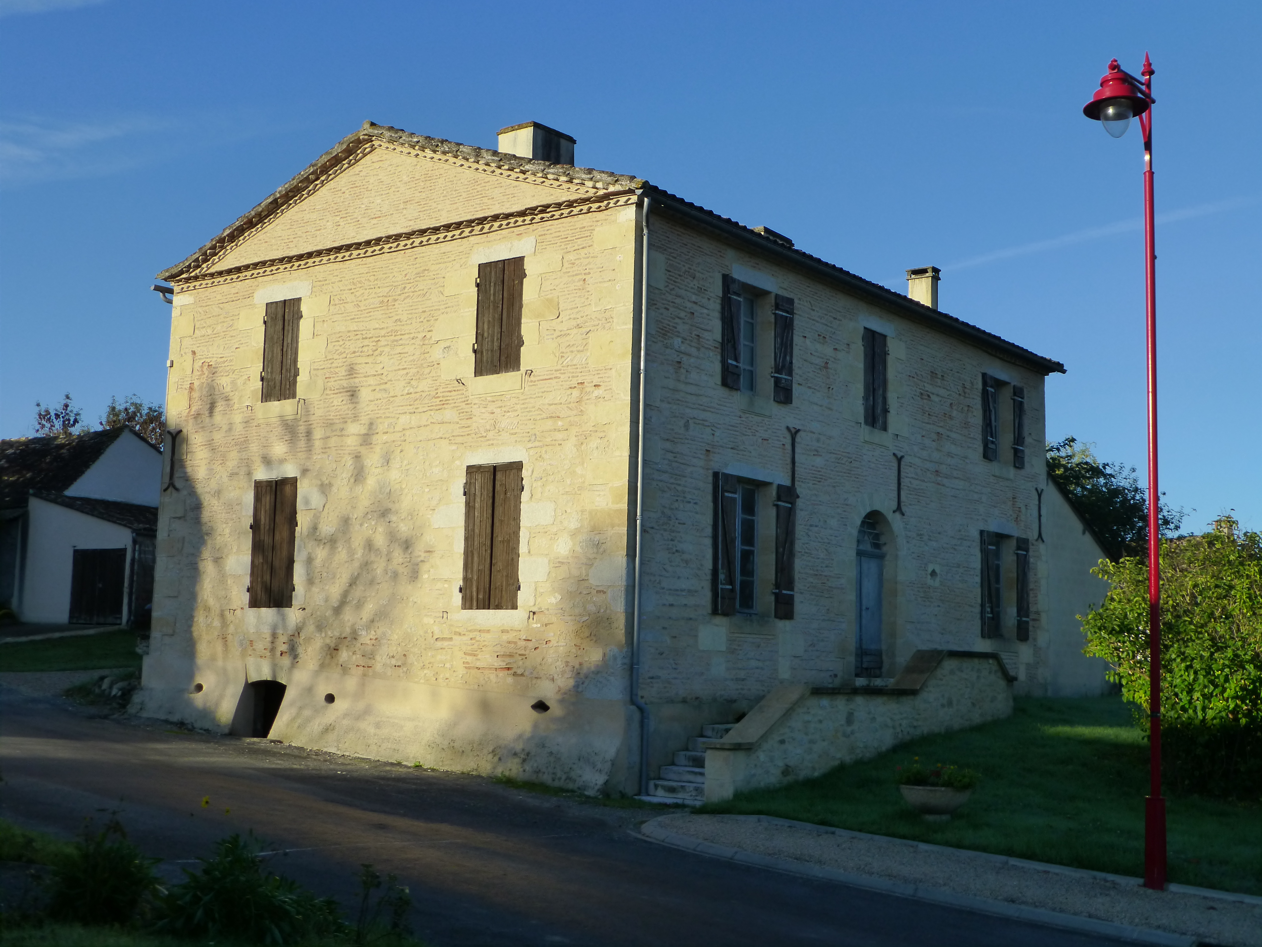 Former presbytery of the village of Fraisse in Périgord, France